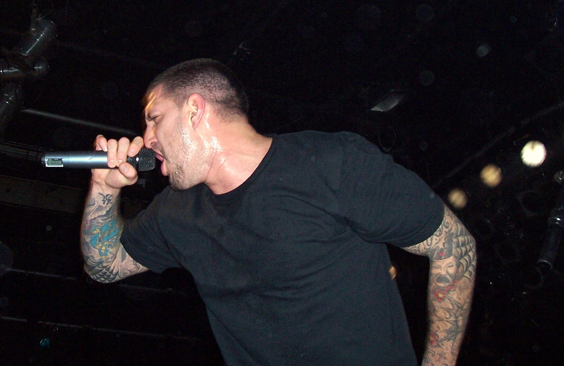 Freddy Cricien, Madball during concert in Berlin